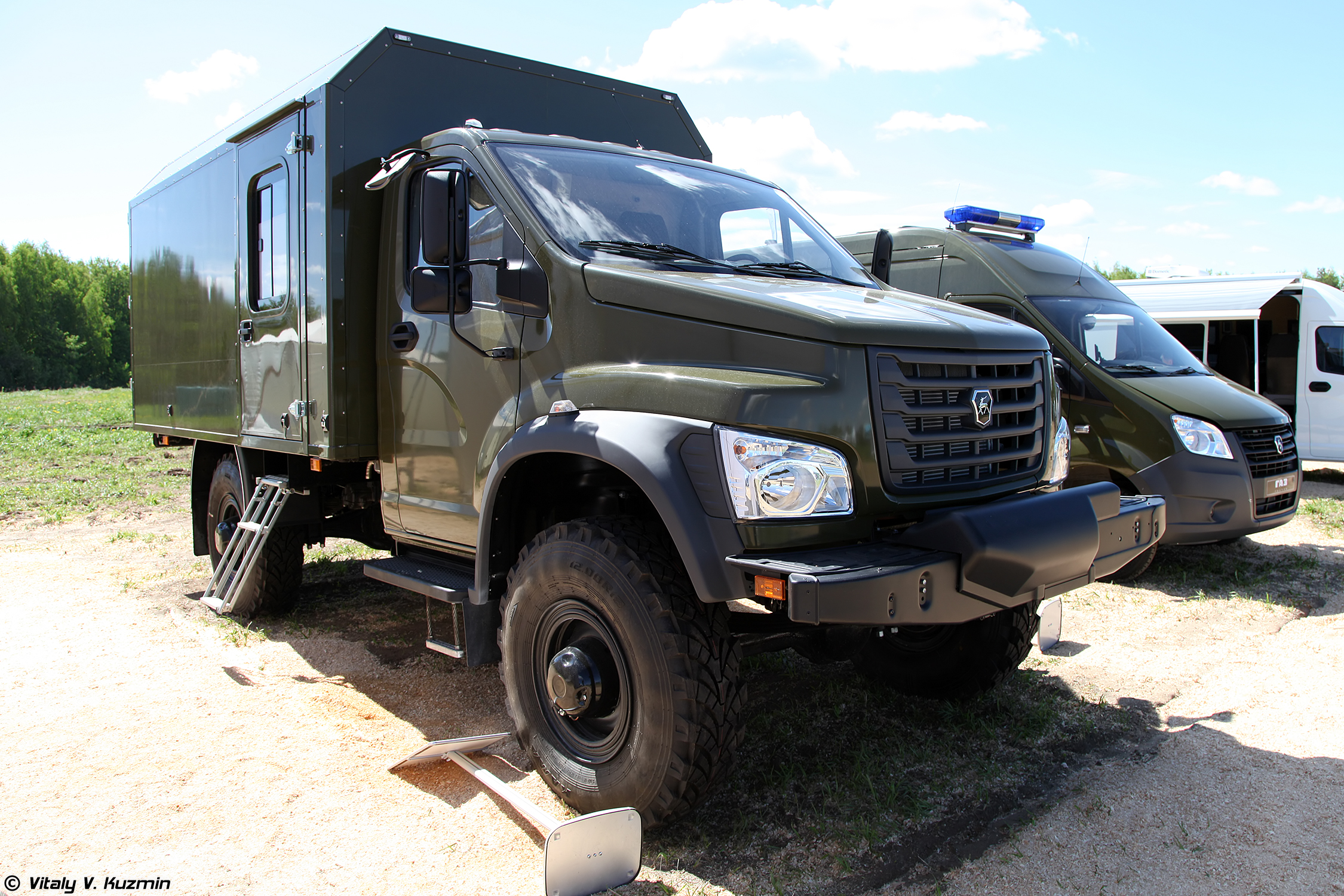 The Day of Advanced Technologies of Law Enforcement 2017